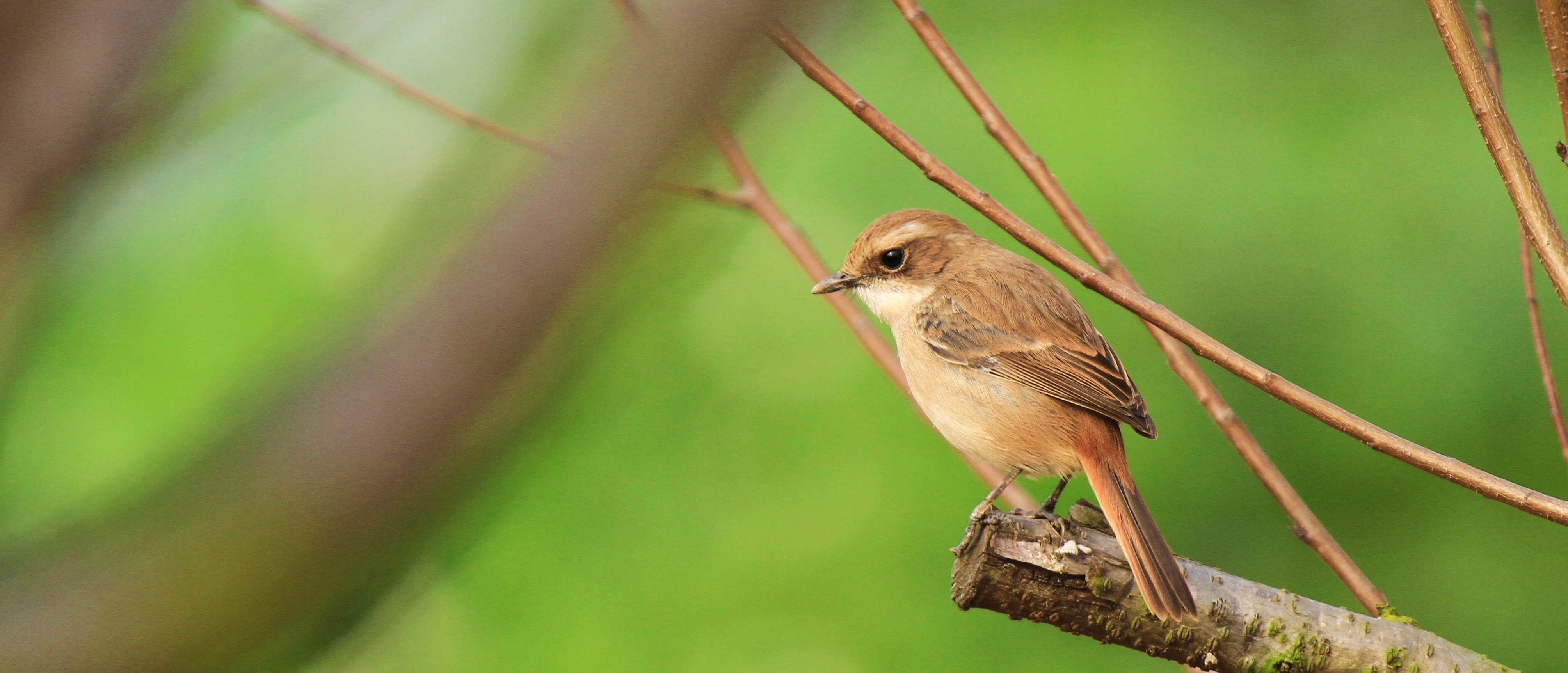 Grey bush chat (femal)